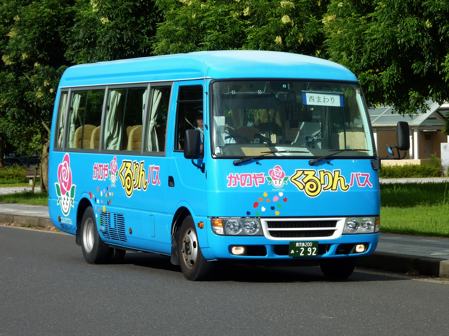 Kanoya City Circle Bus